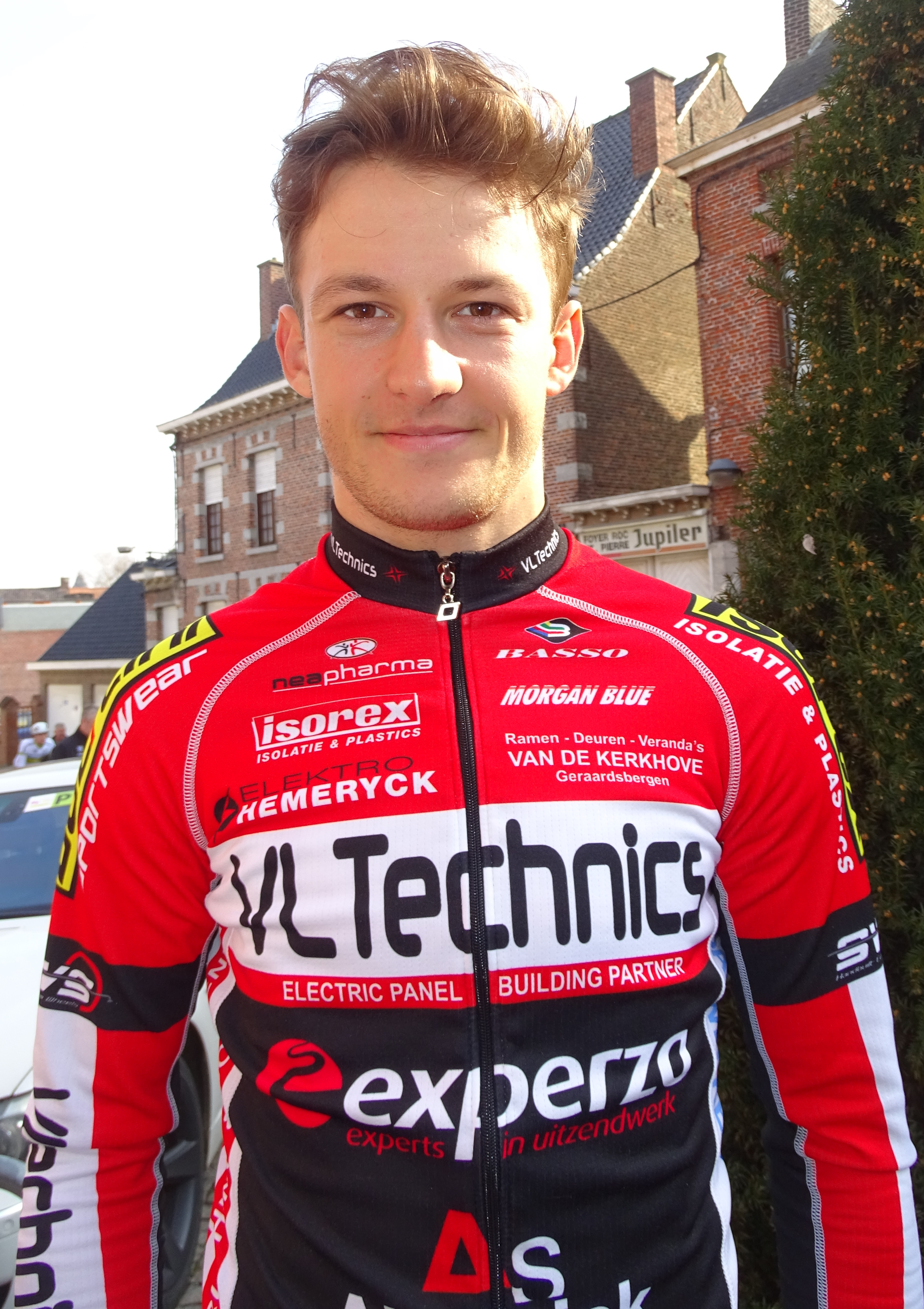 Triptyque des Monts et Châteaux 2016 Depicted person: Depicted team: VL Technics-Experza-Abutriek